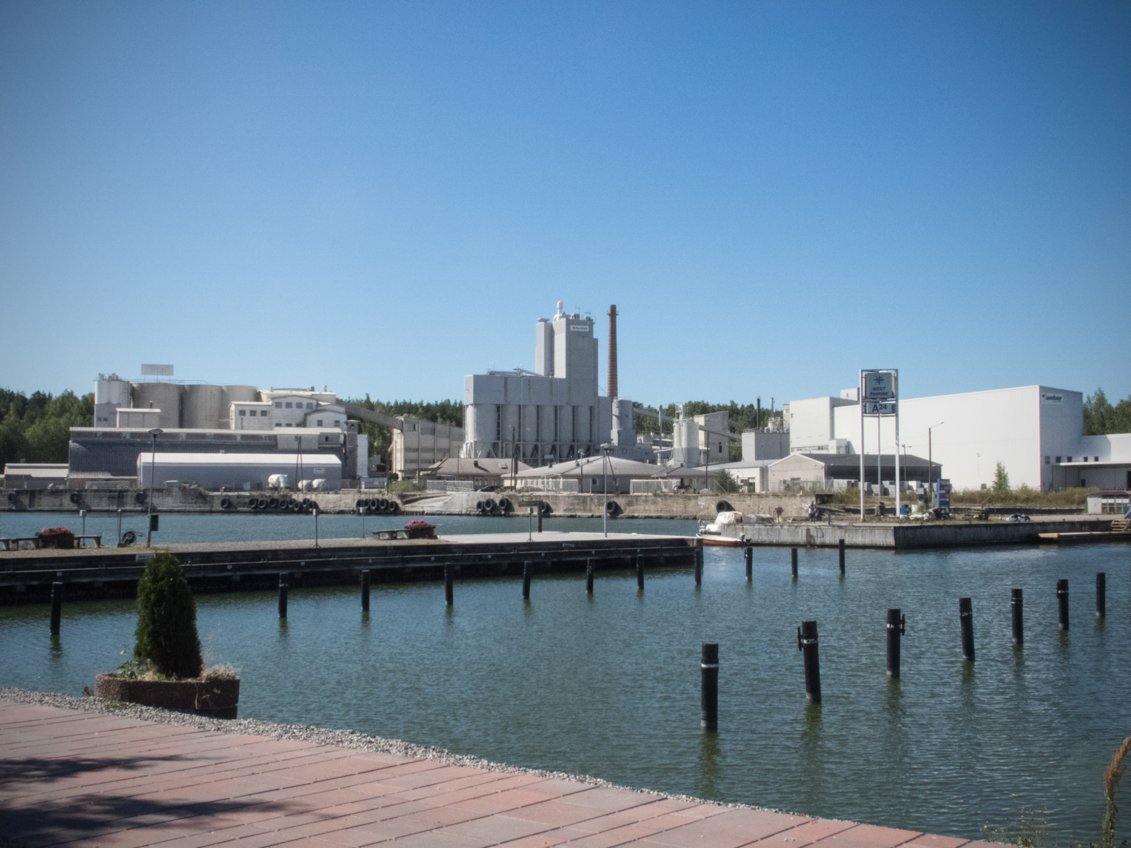 Finnsementti cement factory (formerly Paraisten Kalkki) in central Pargas (Parainen), Southwestern Finland